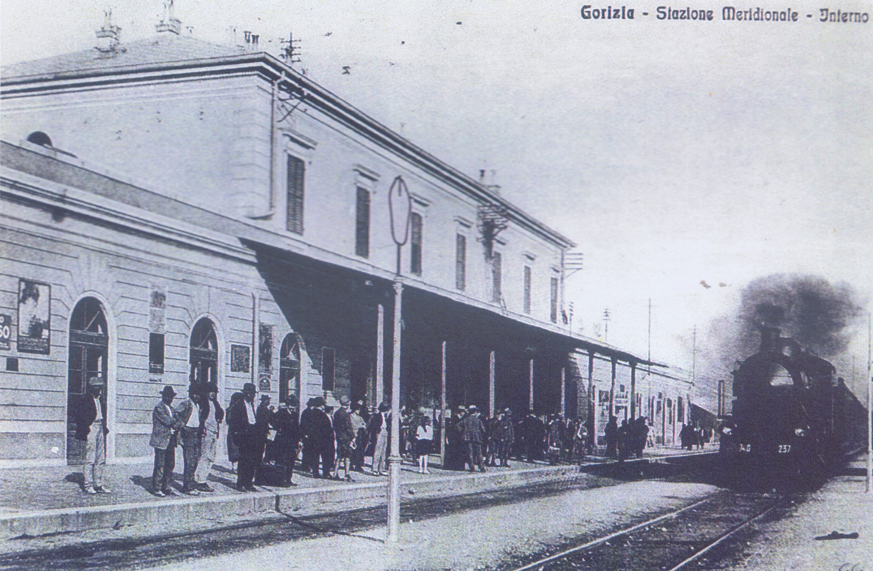 Trainstation of Gorizia, Italy